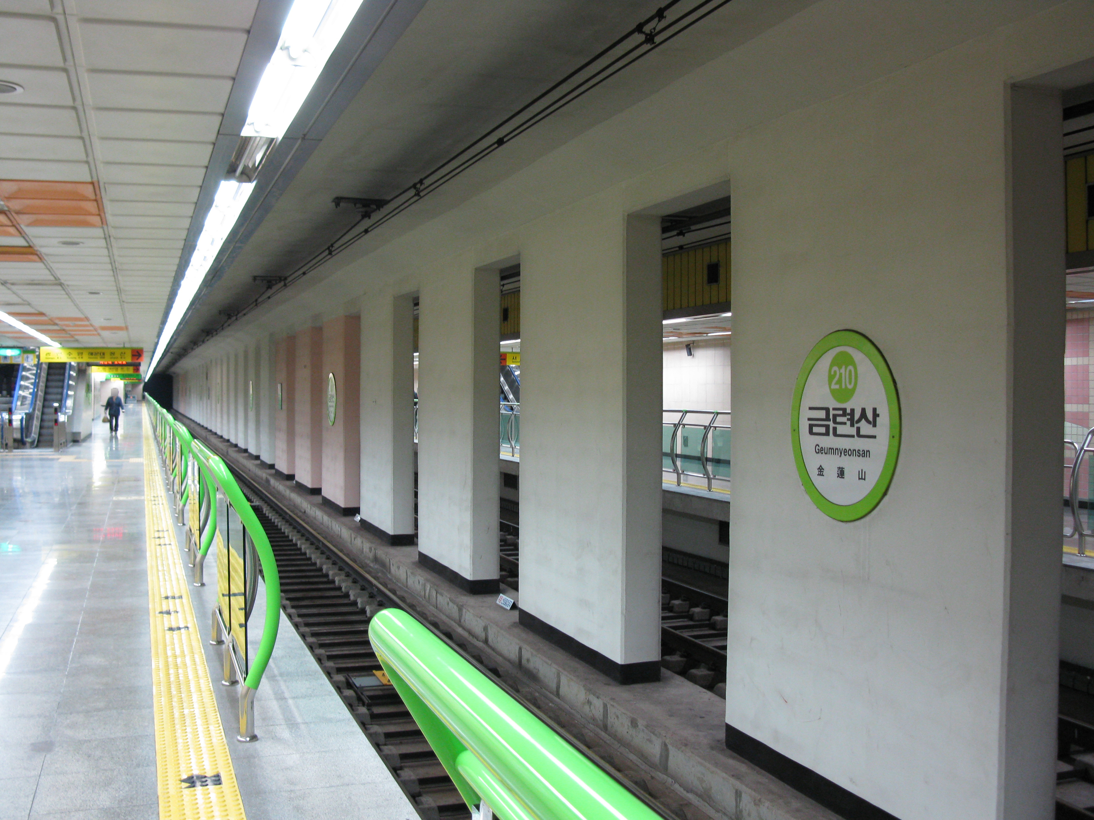 The platform at Geumnyeonsan Station on the Busan Subway Line 2 in Suyeong-gu, Busan, Republic of Korea(South Korea)